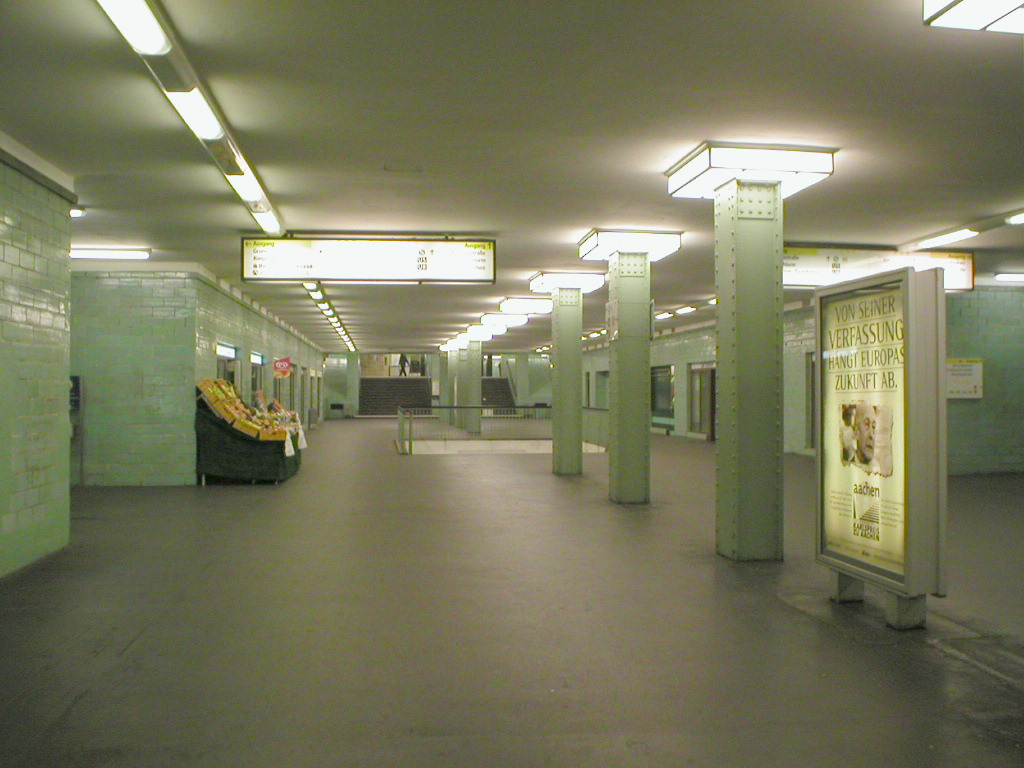 Shopping hall in the Berlin U-Bahn station Alexanderplatz, between lines U2 and U8